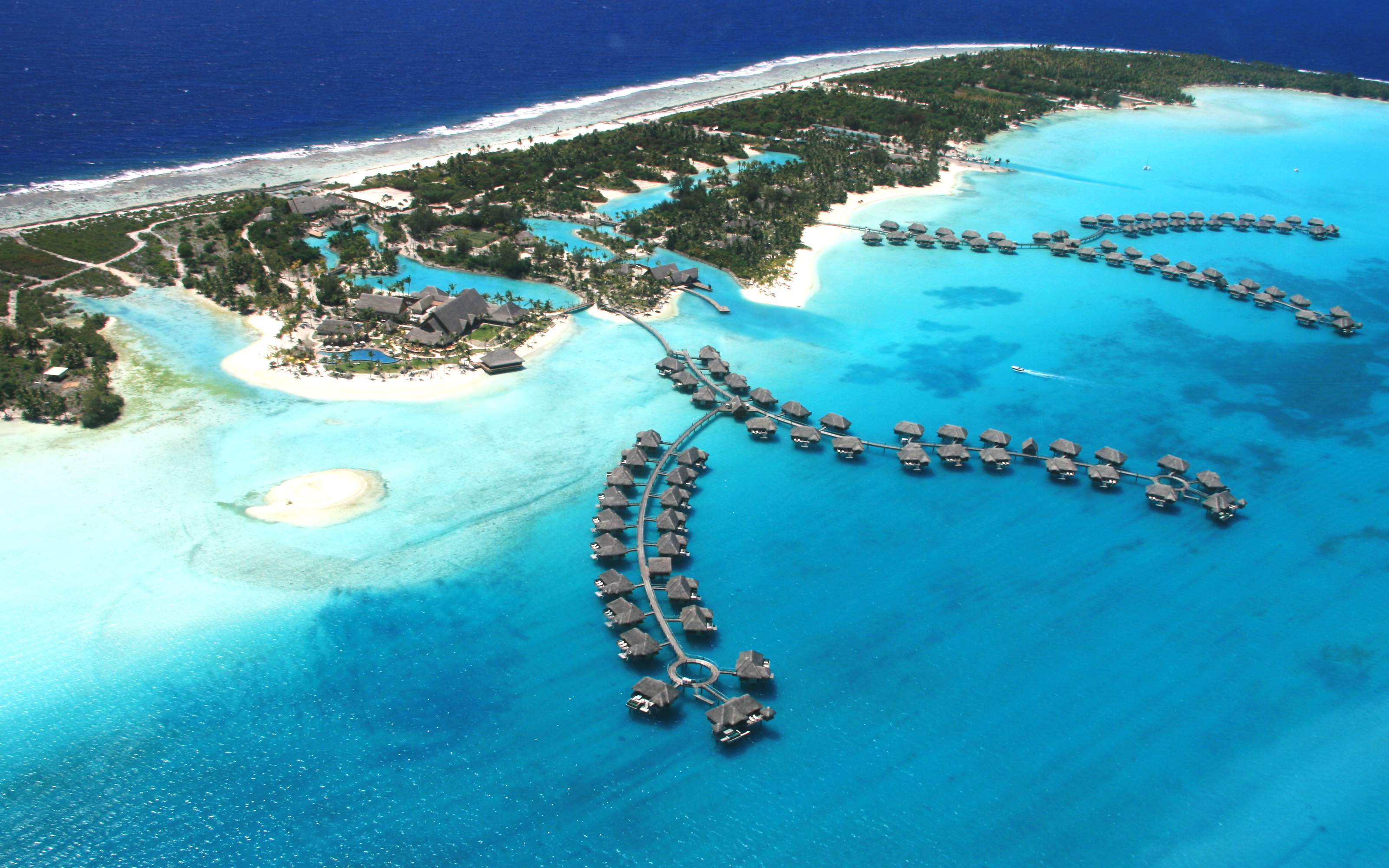 DL2A Four Seasons Bora Bora